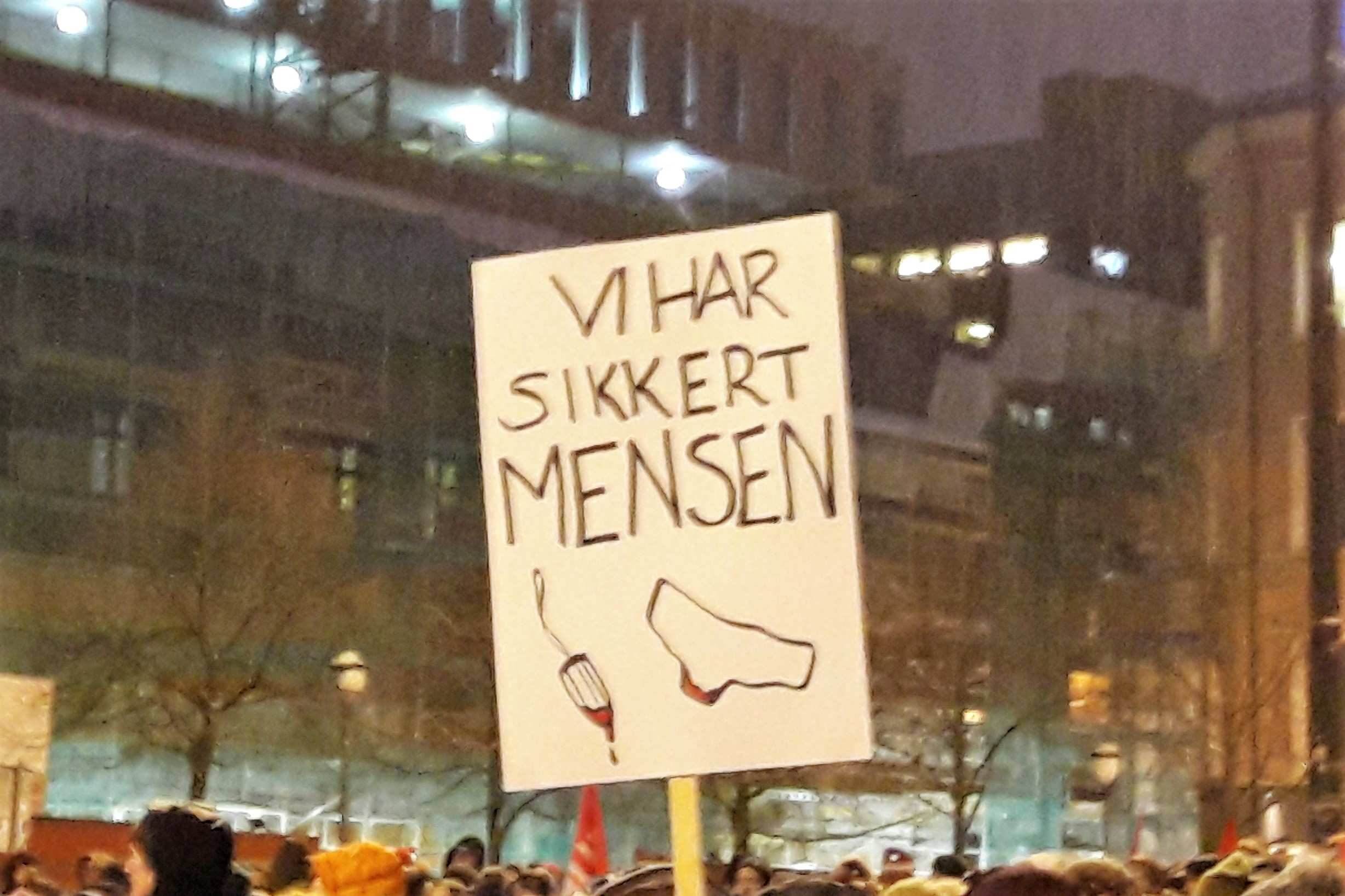 "We are probably on Our periods" Poster at the IWD parade, Oslo, Norway